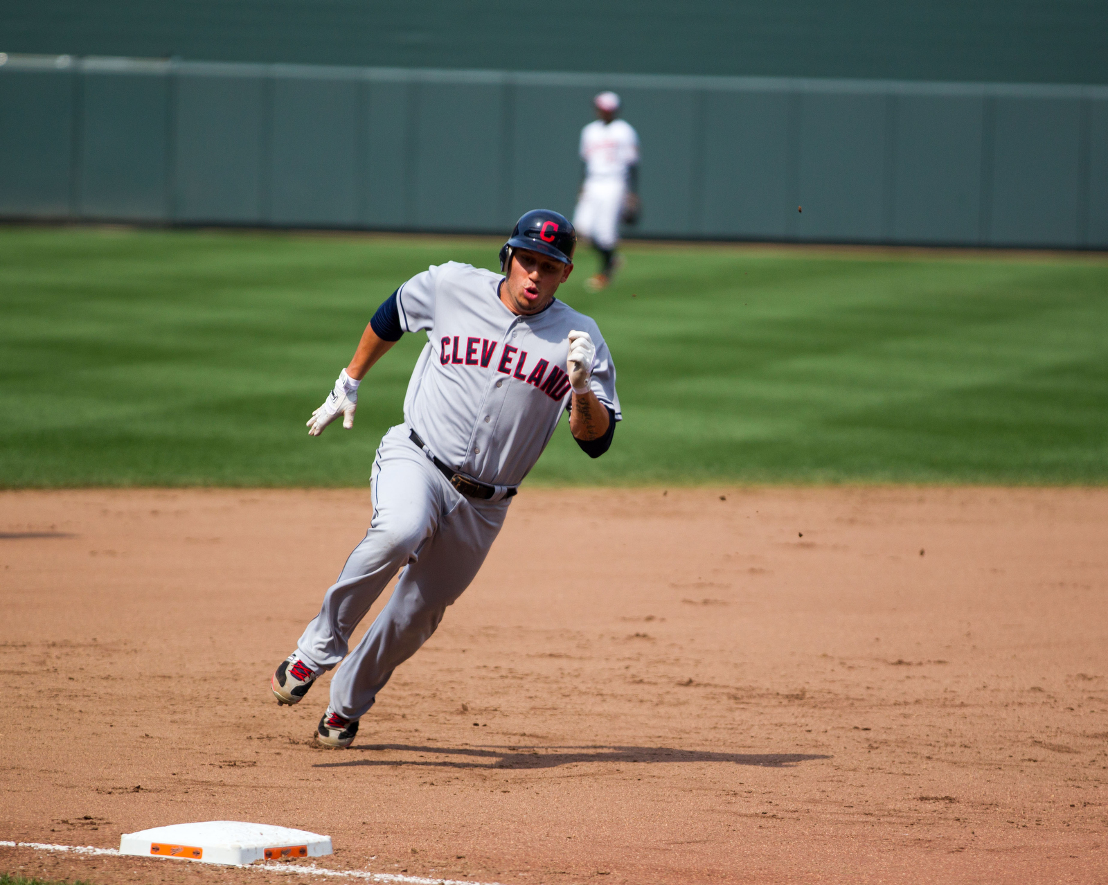 Asdrubal Cabrera, the Shortstop for the Cleveland Indians. He's also a 2x All Star.